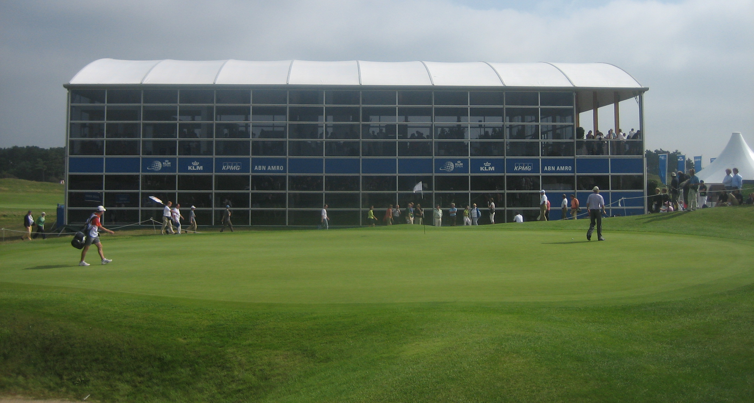 The 14th green at the 2007 KLM Open at Kennemer Golf & Country club, Netherlands.